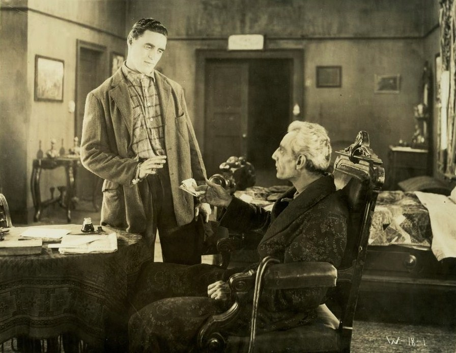 George Walsh (left) and Mario Majeroni in From Now On (1920) - cropped screenshot.